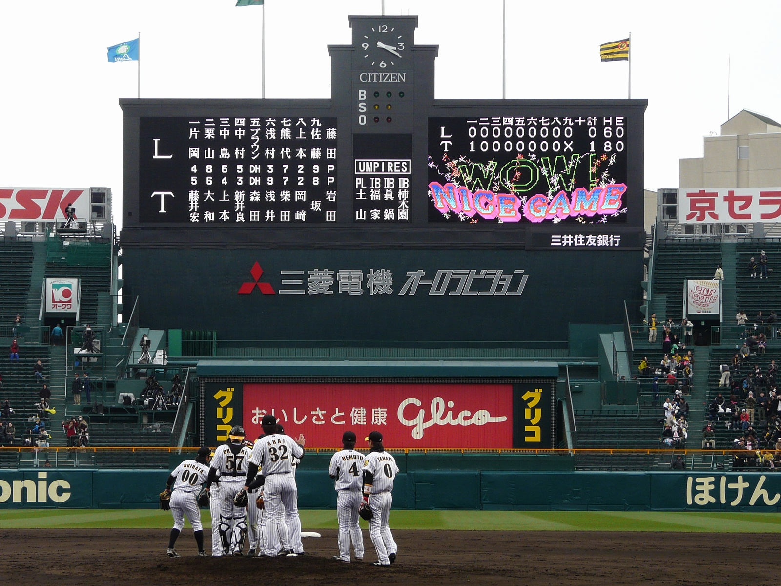 Hanshin_Koshien_Stadium4